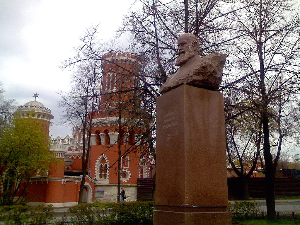 Putevoy (Petrovsky) palace